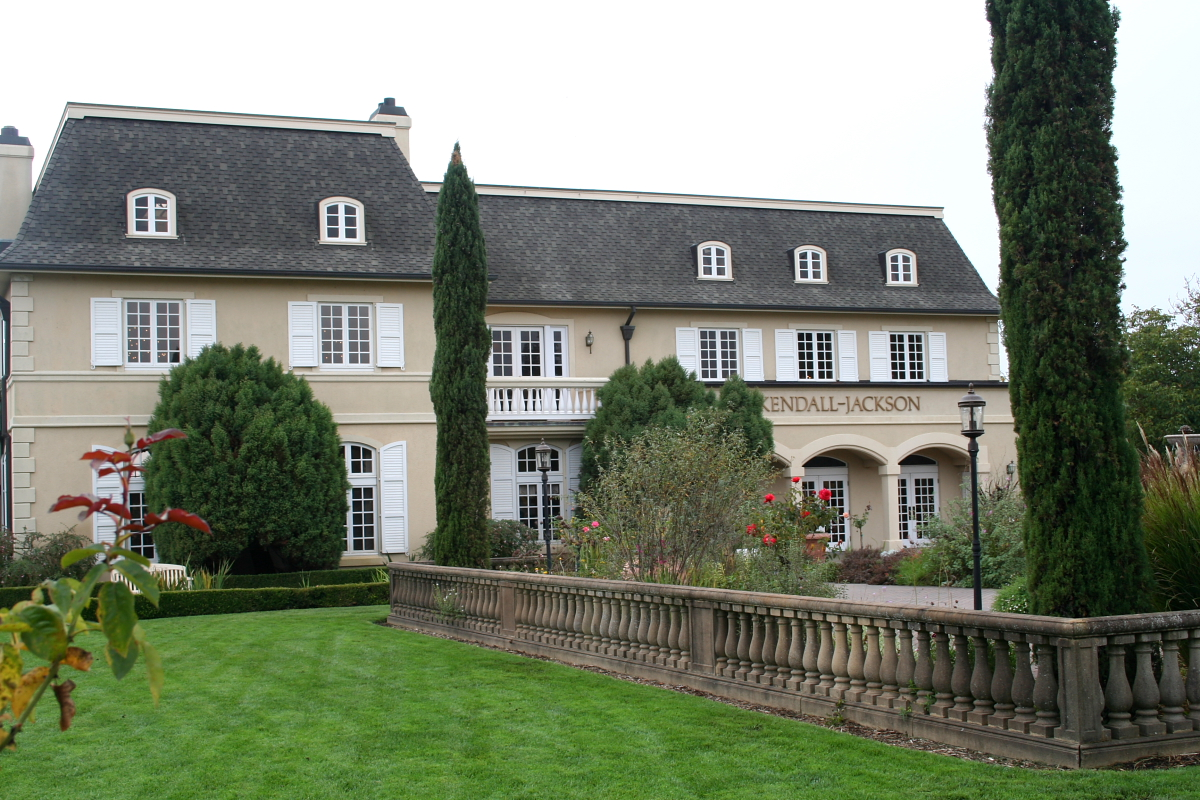 California winery Kendall Jackson